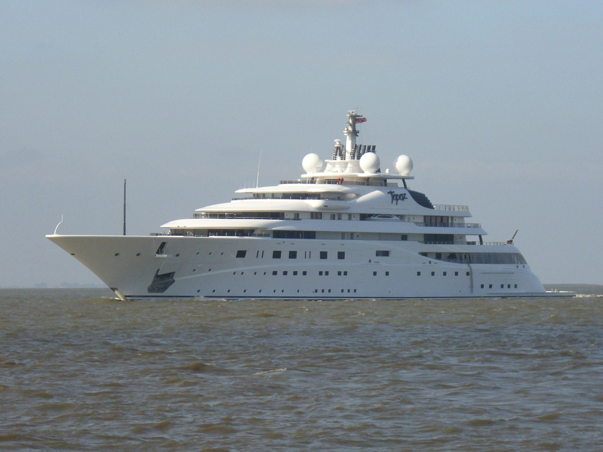 The yacht Topaz inbound on the Weser river